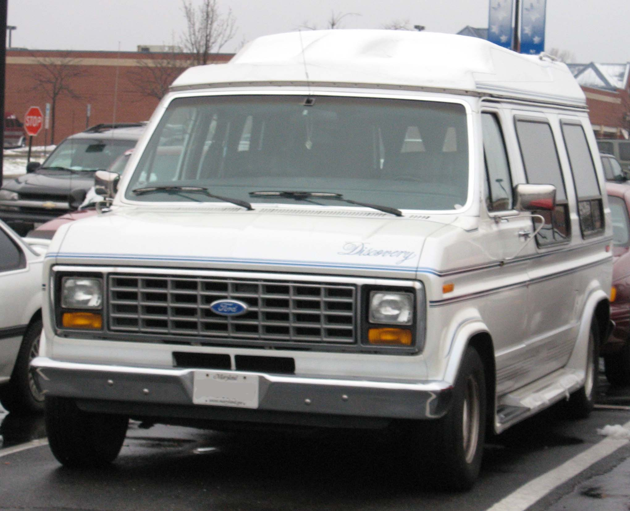 Ford Econoline conversion van photographed in USA.